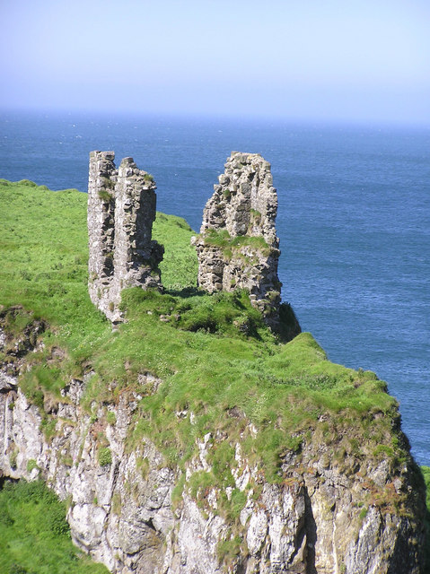 Dunserverick Castle (close-up). Zooming in for a closer look from here 1339384